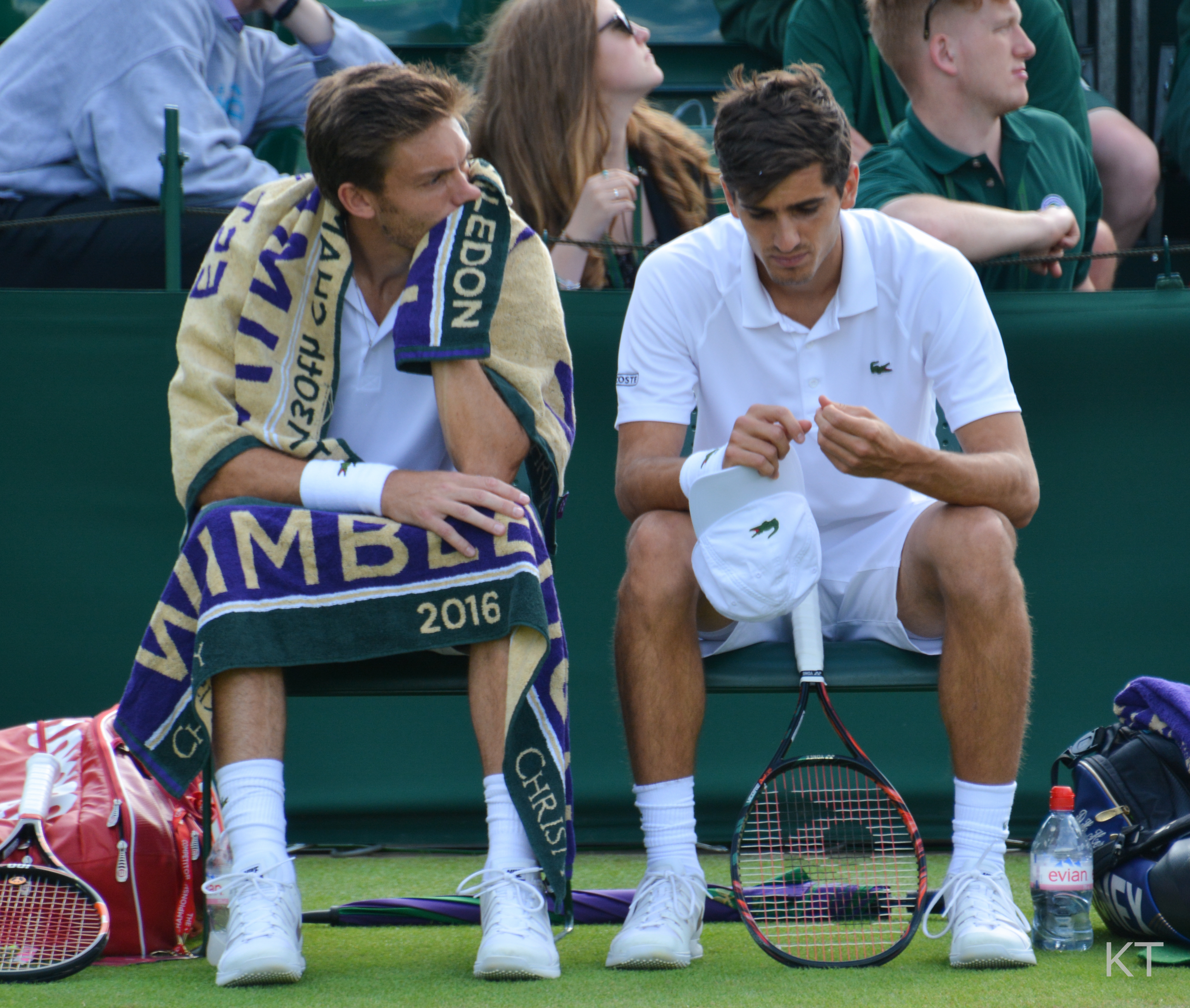 Nicolas Mahut & Pierre-Hugues Herbert. Middle Sunday of Wimbledon 2016.